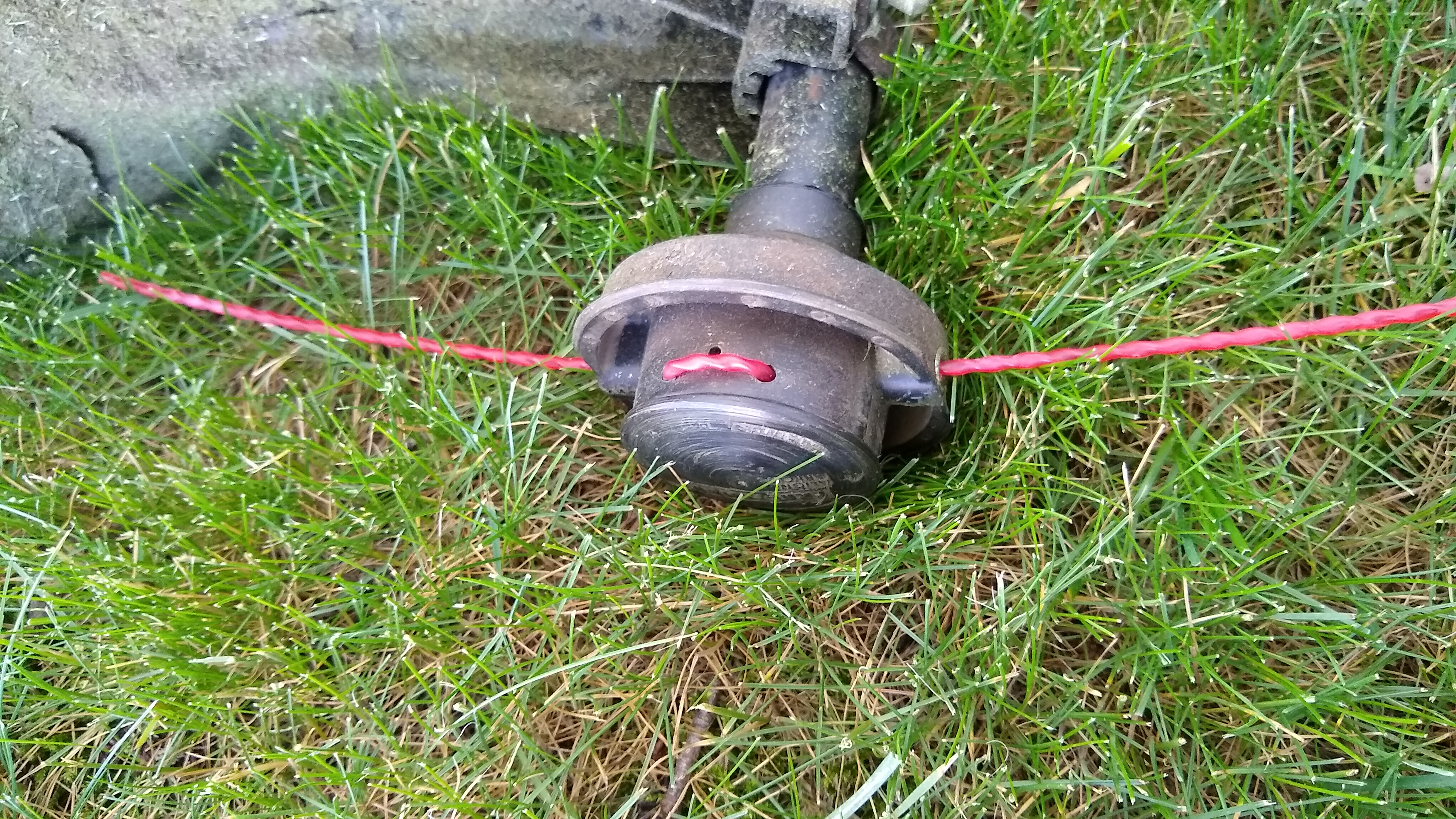 In a fixed line style string trimmer, one pre-cut line is fed directly in to the appropriate inserts in to the head. After the line is worn down, the user replaces it. There is no "bump feed" system to dispense more line.